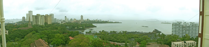 Panorama of the Bombay Harbour